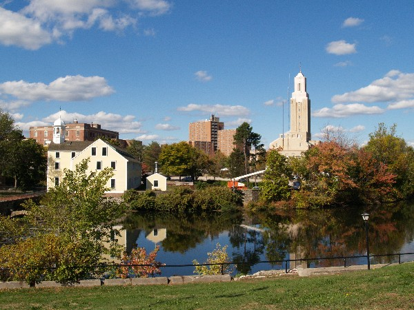 View of Pawtucket, Rhode Island and Blackstone River